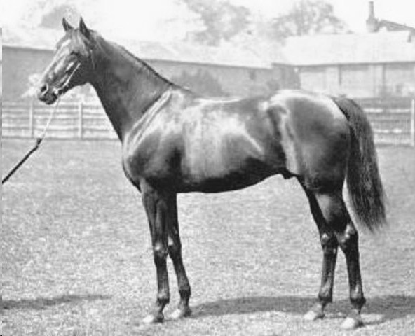 Photo of racehorse Orme. Unknown author.